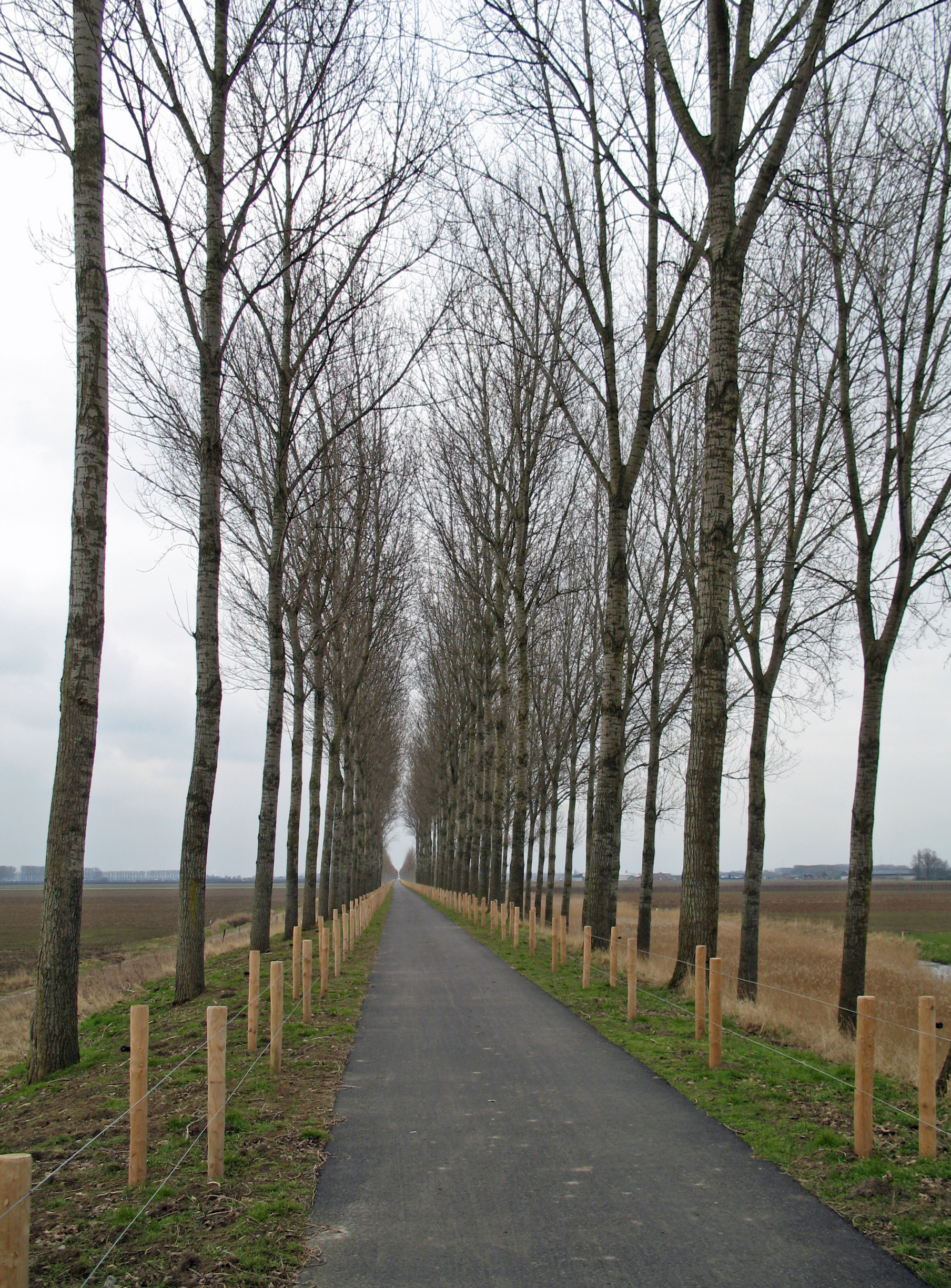 Sint-Gillis-Waas (province of East Flanders, Belgium): the Koningsdijk in the neighborhood of Fort Bedmar